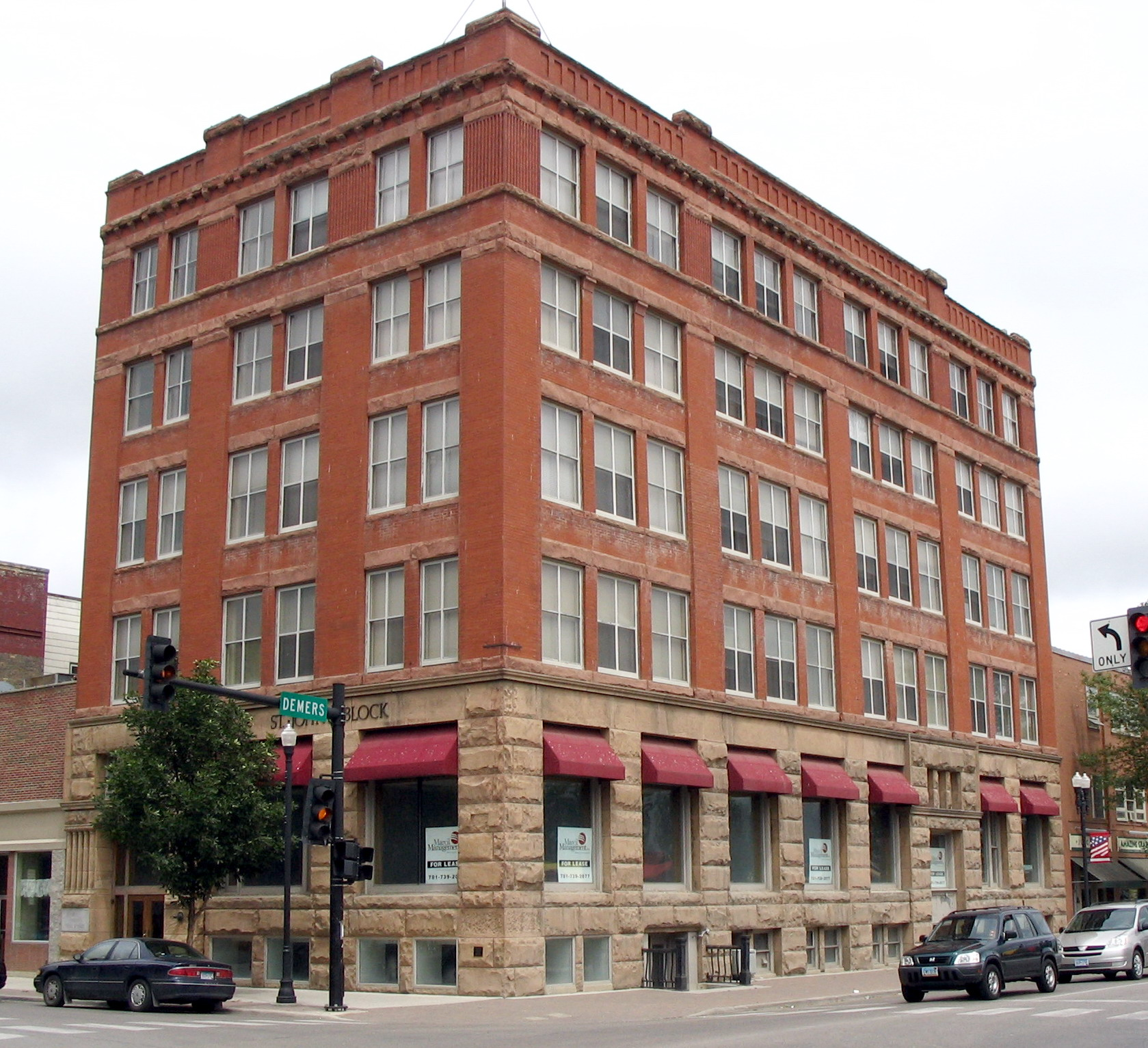 St. Johns/Exchange Bldg, Grand Forks, North Dakota. This building is listed on the National Register of Historic Places.